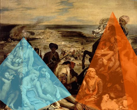 two human pyramids in Delacrox's "The Massacre at Chios"